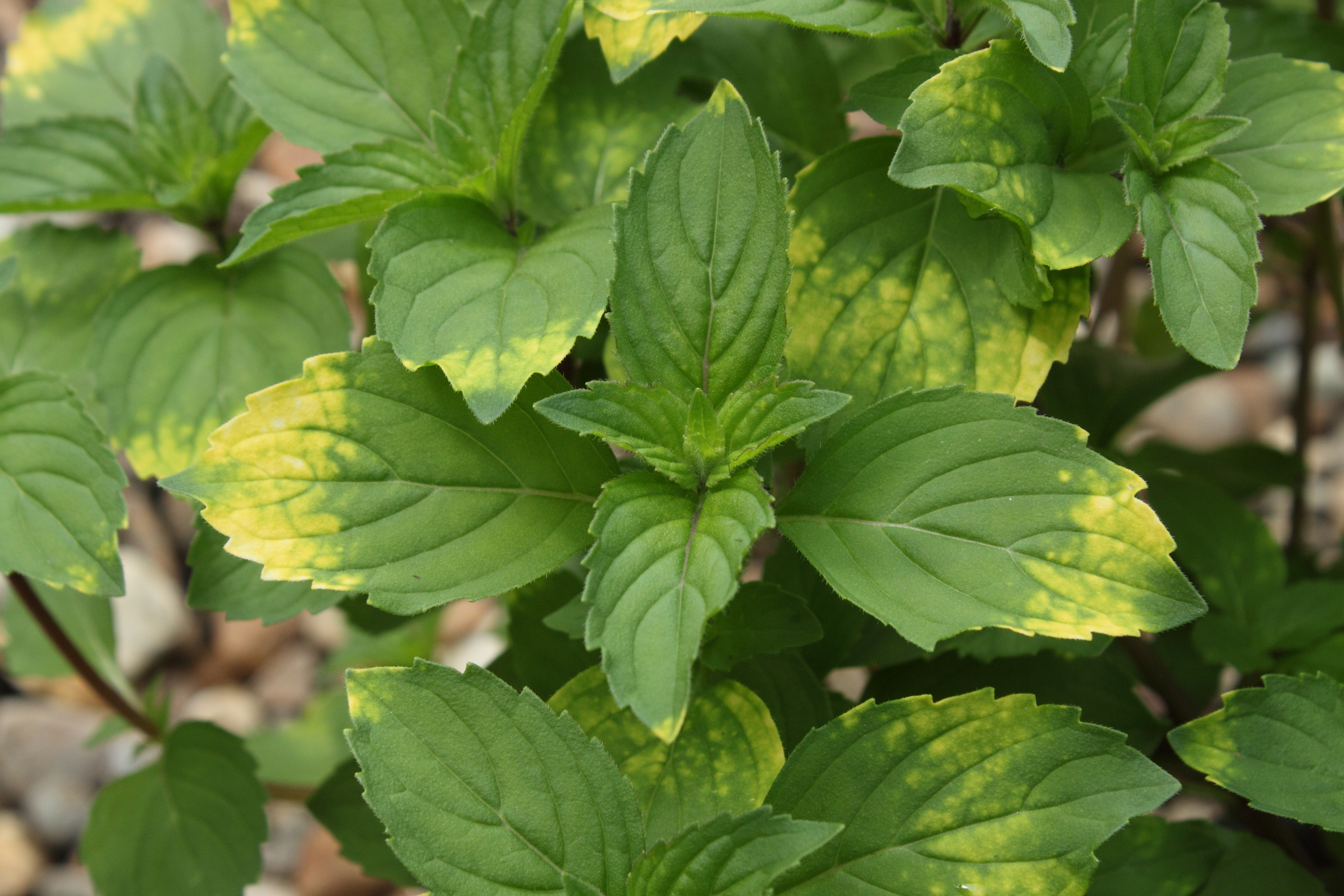 Calamintha grandiflora en cultivar 'Variegata', commonly known as Showy Calamint or Mint Savory. Growing in New Hampshire.